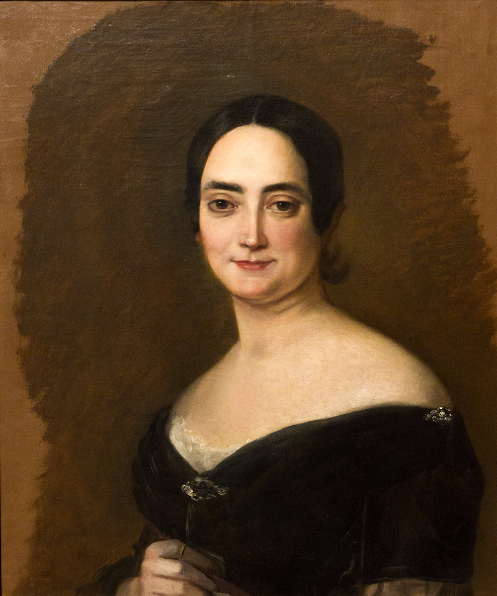 Portrait of Jacinta Martínez de Sicilia y Santa Cruz by José de Madrazo.